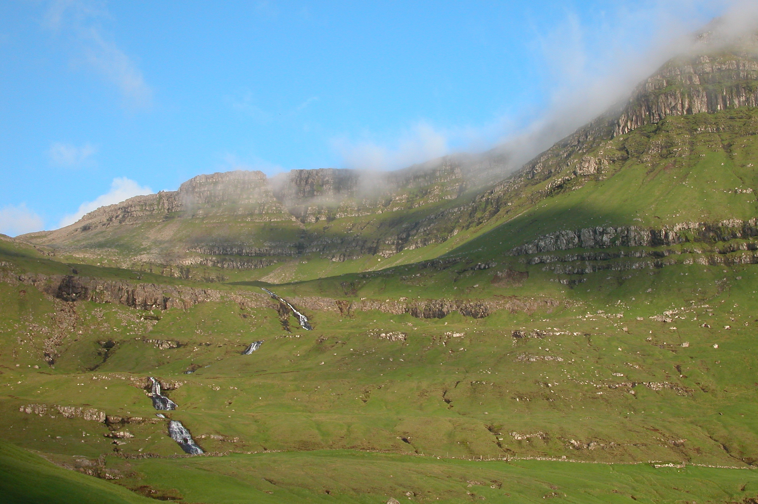 Mountains at Norðradalur on Streymoy, Faroe Islands